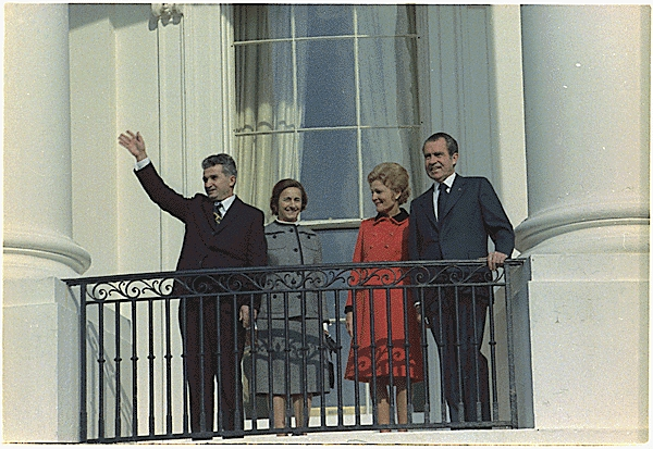 Arrival ceremony for President Ceausescu of Romania, south balcony of the White House